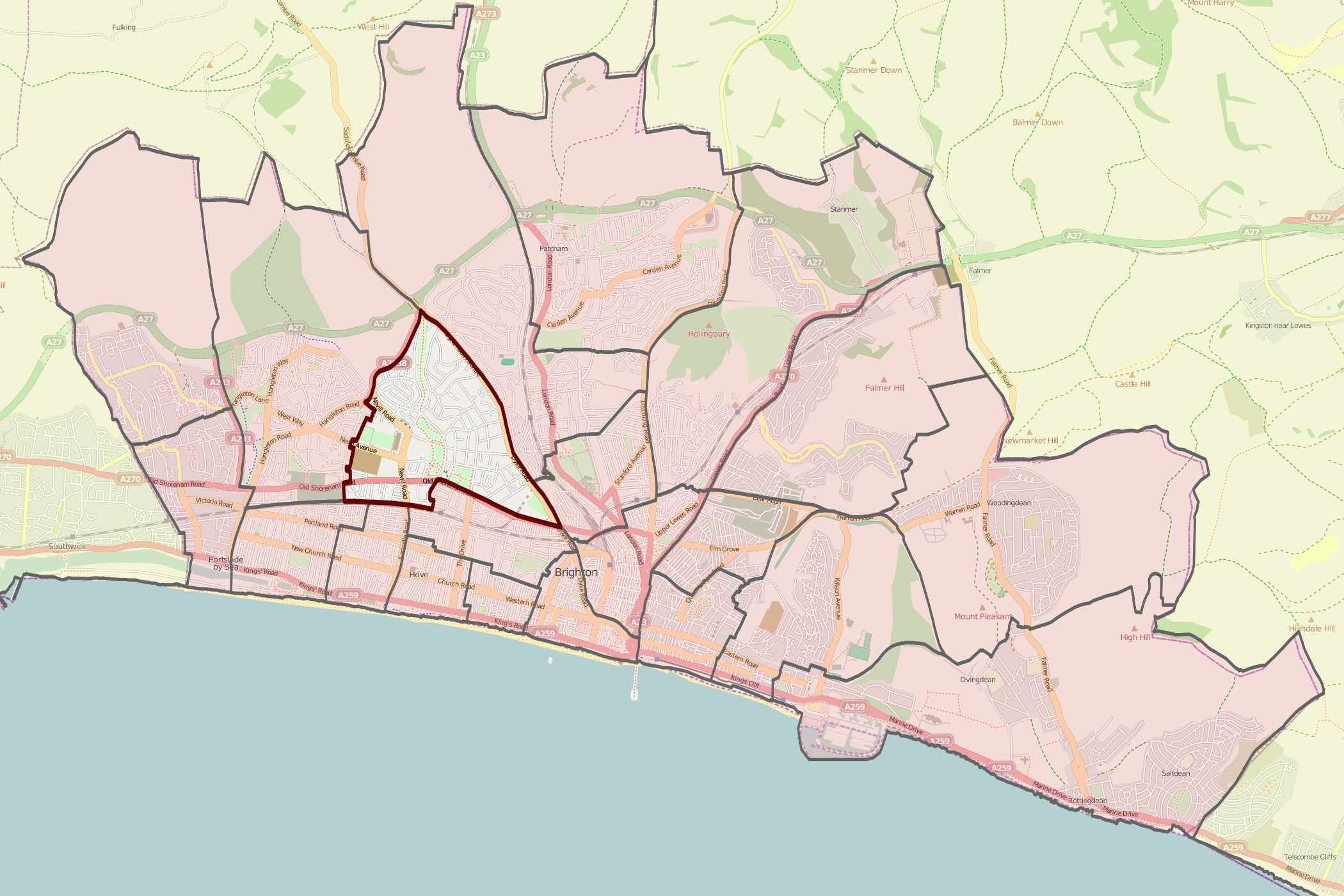 Map of Brighton and Hove wards with one ward highlighted